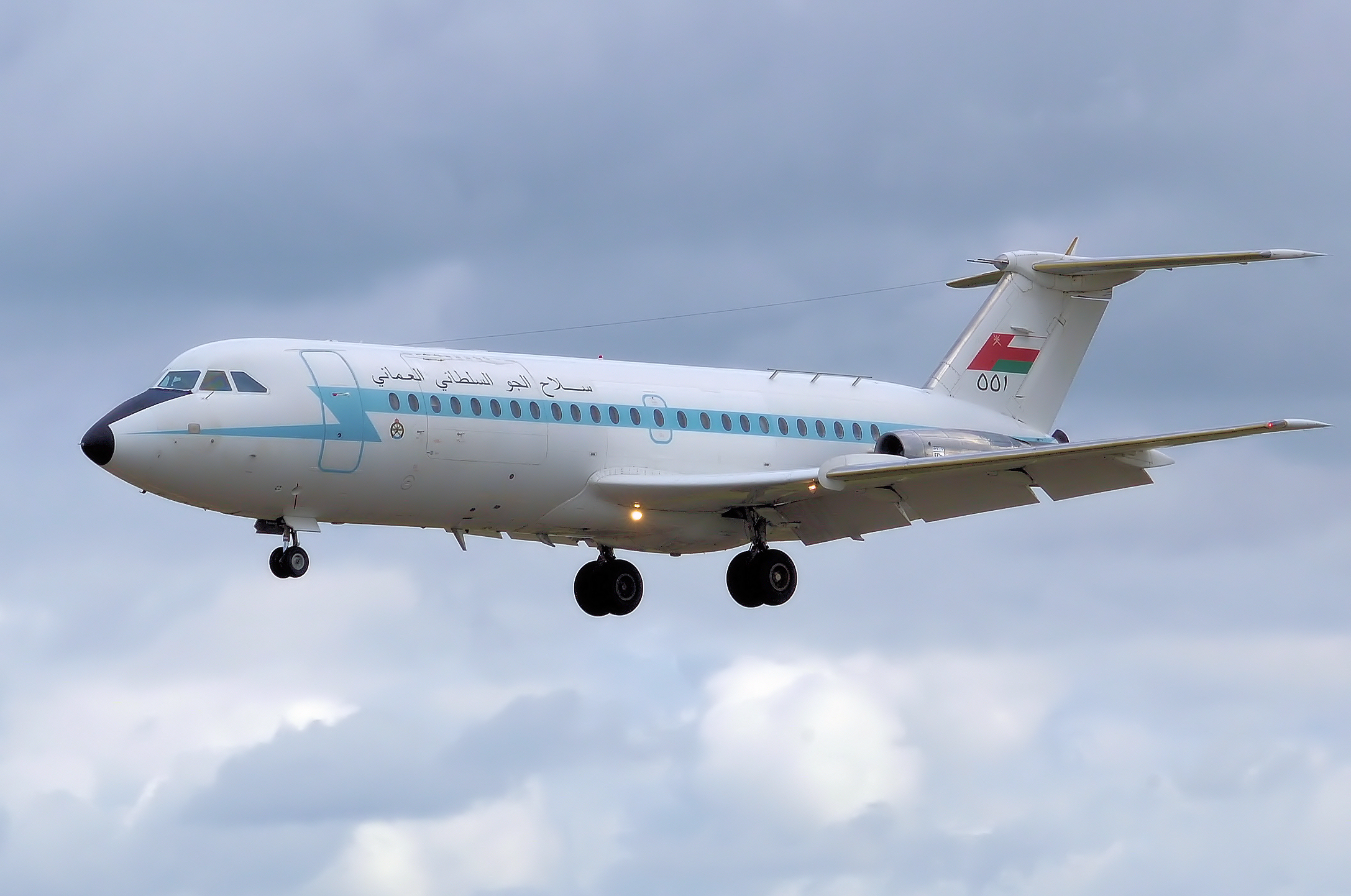 Royal Air Force of Oman BAC 1-11 Model 485GD (fin code 551) at the 2008 Royal International Air Tattoo, Fairford, Gloucestershire, England. Note that the apparent fin code of 001 is in Arabic numerals and is 551 (not 001). Taken at RIAT Fairford on the Thursday before the weekend show days. Later both show days (Saturday and Sunday) were cancelled because of waterlogged car parks. Photographed by Adrian Pingstone in July 2008 and placed in the public domain.